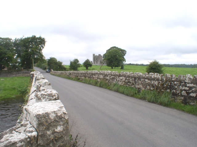 Bective Bridge looking towards Bective Abbey